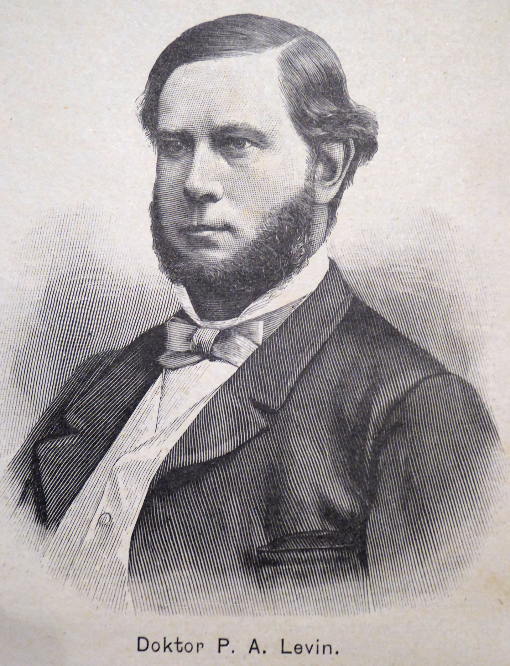 The Swedish doctor Pehr Axel Levin